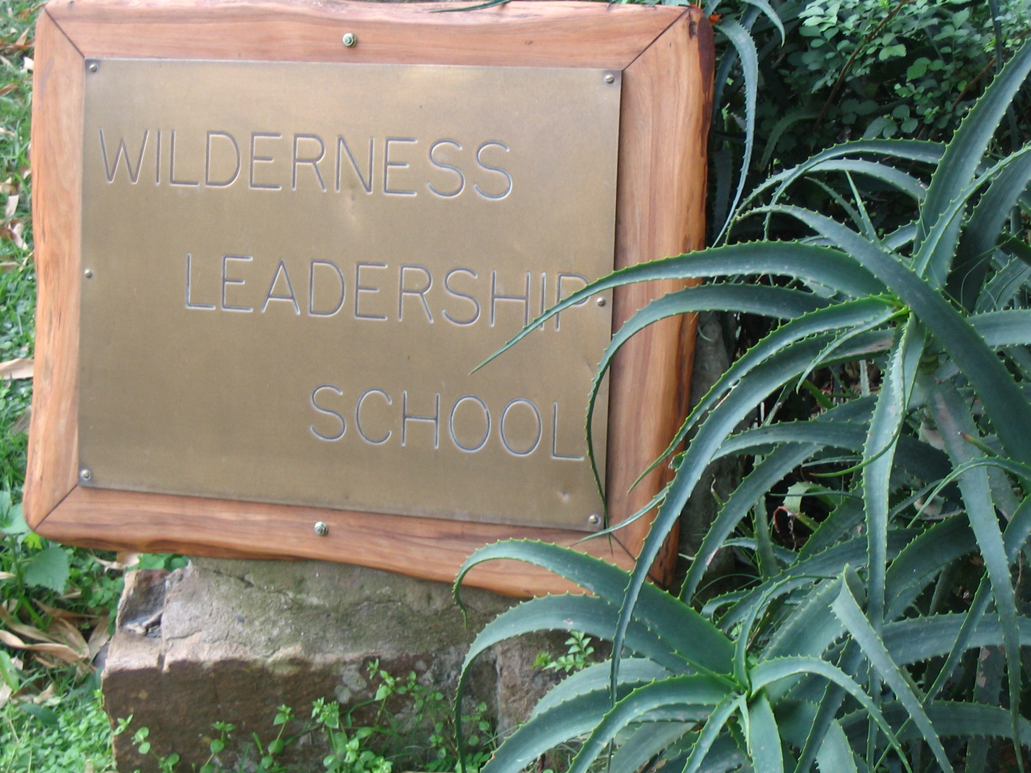 Wilderness Leadership School, Durban.